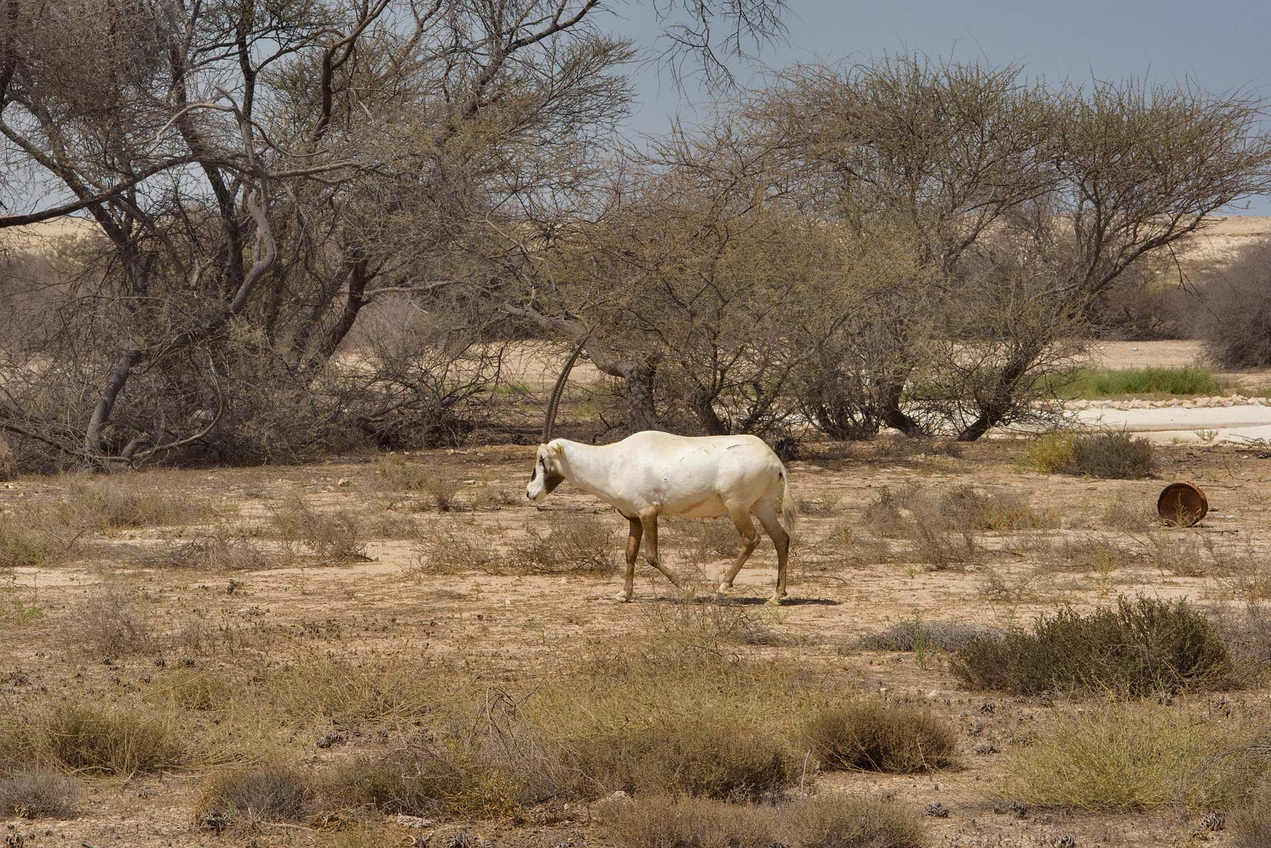 Oryx in a depression near Zekreet Film City on the Zekreet Peninsula in western Qatar.